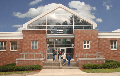 The Williston Northampton School's state-of-the-art Athletic Center